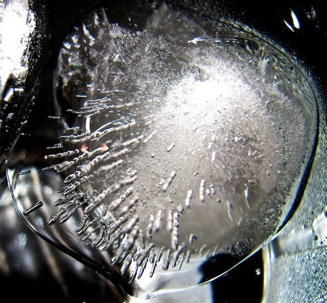 Detail of an ice cube